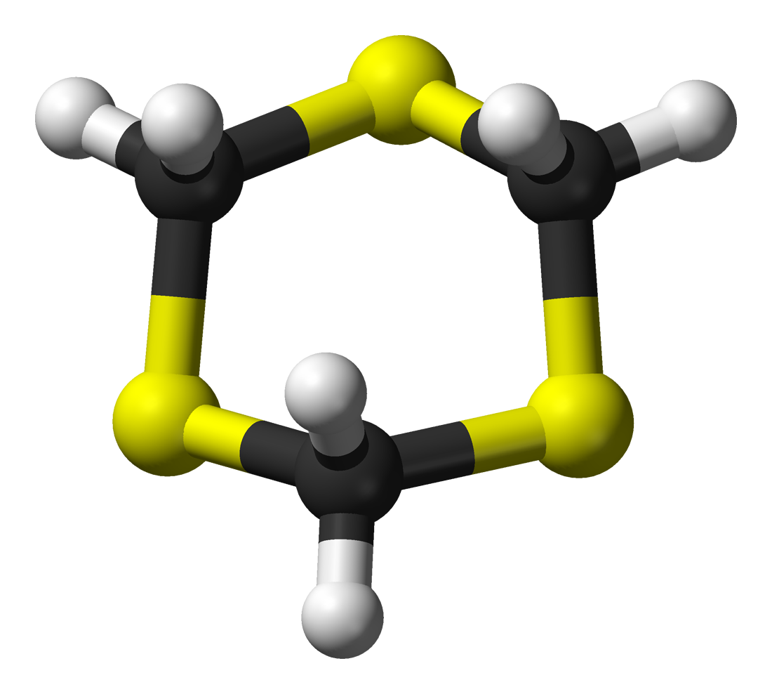 Ball-and-stick model of the 1,3,5-trithiane molecule, C3H6S3. X-ray crystallographic data from G. Valle, V. Busetti, M. Mammi and G. Carazzolo (August 1969). "The crystal structure of 1,3,5-trithiane: a refinement". Acta Cryst. 'B25' (8): 1432-1436.